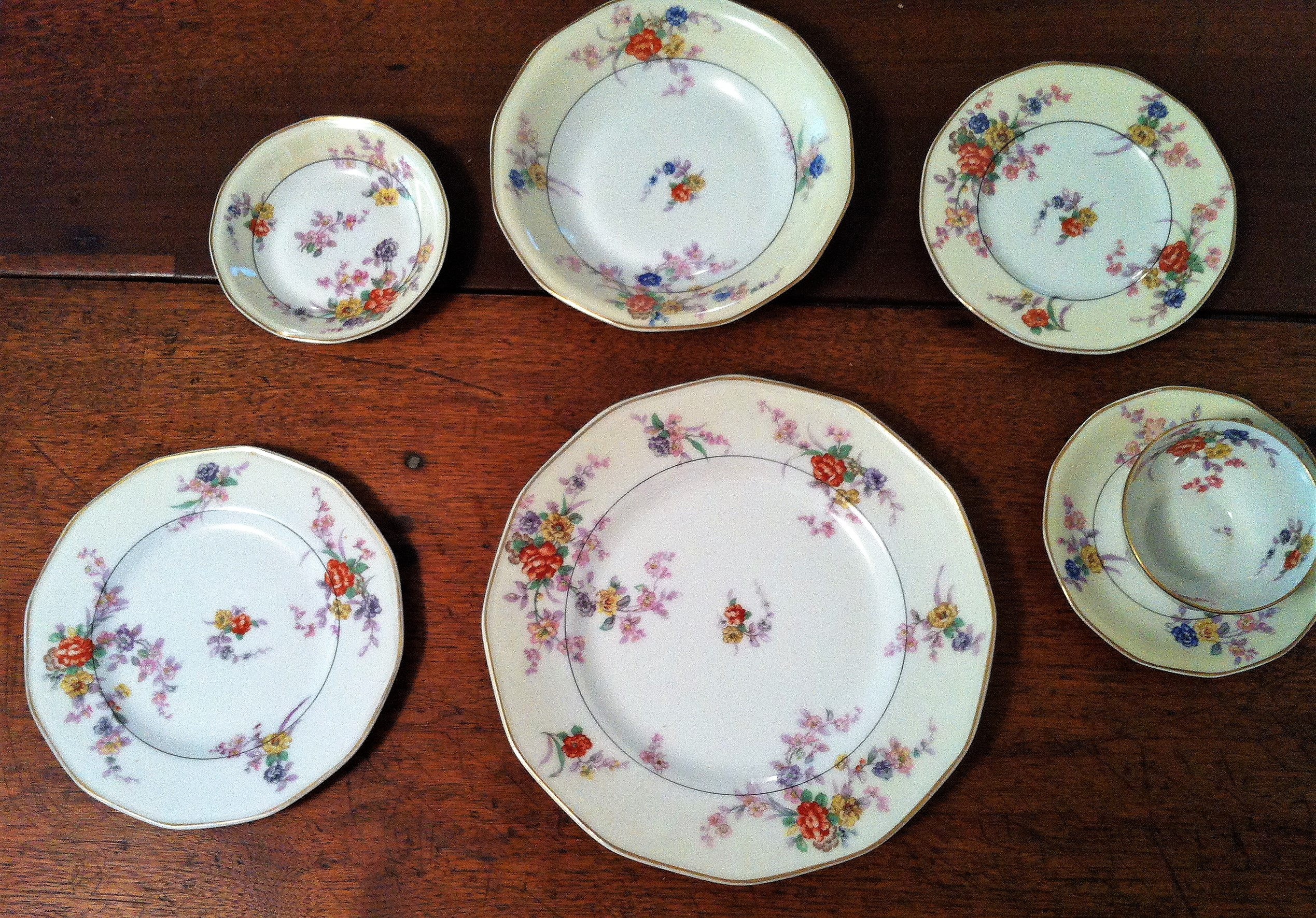 Set with 6 place settings: dinner plate plus (clockwise) salad plate, sauce dish, soup bowl, bread & butter plate, cup & saucer.